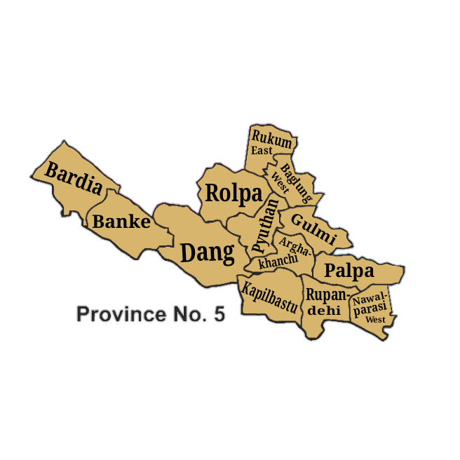 Province-5 of Nepal